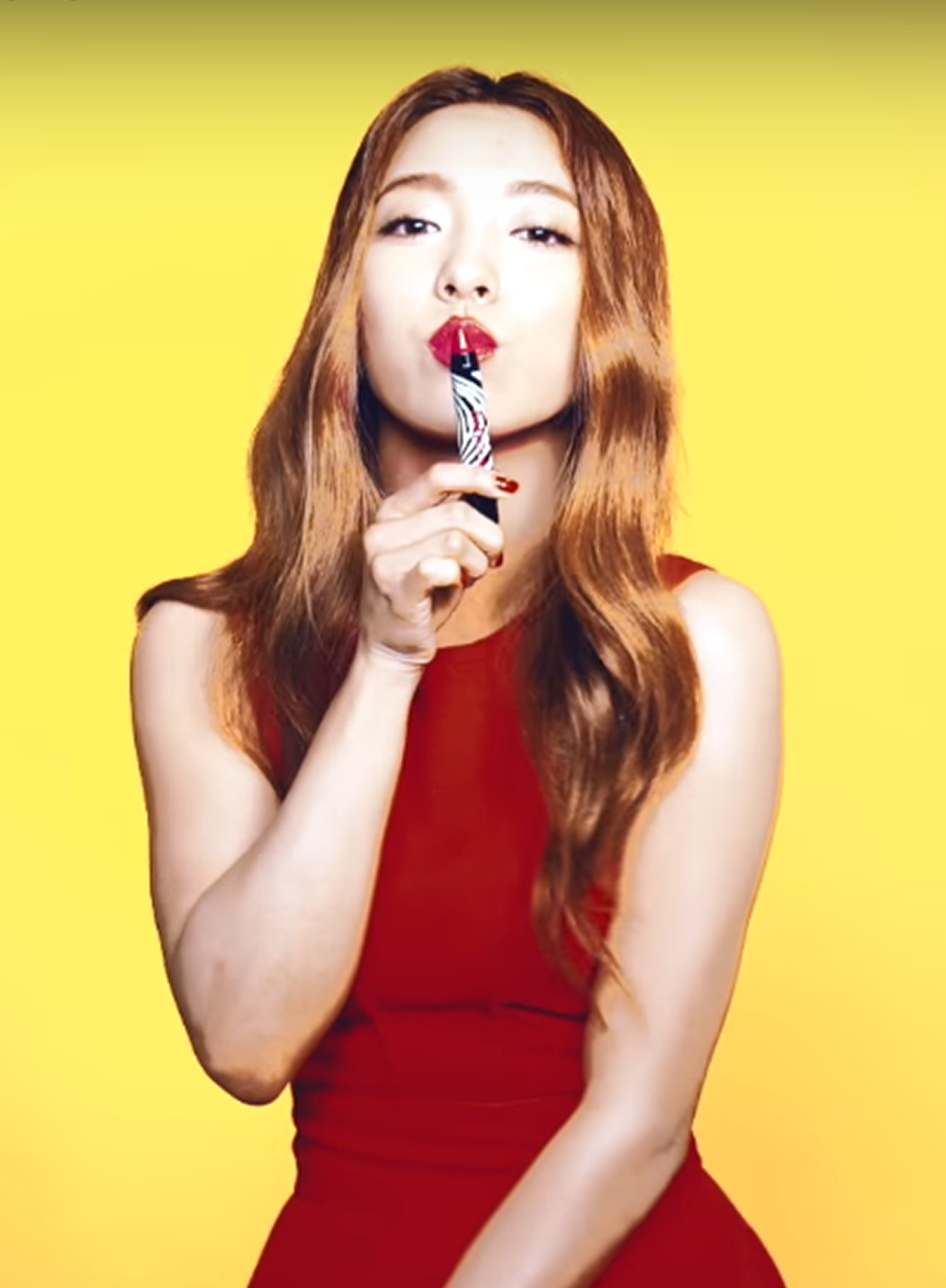 Luna for Marie Claire Korea Magazine June Issue 2016